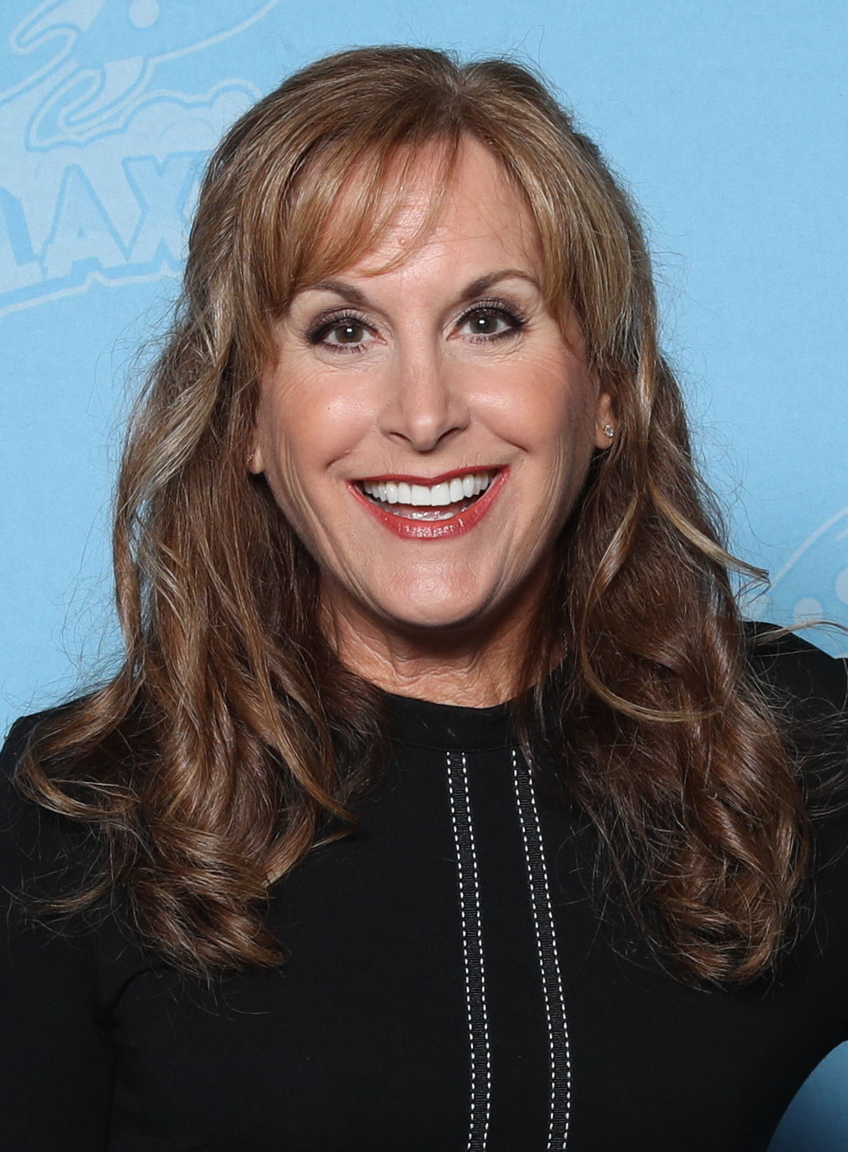 Jodi Benson at GalaxyCon Raleigh in 2019